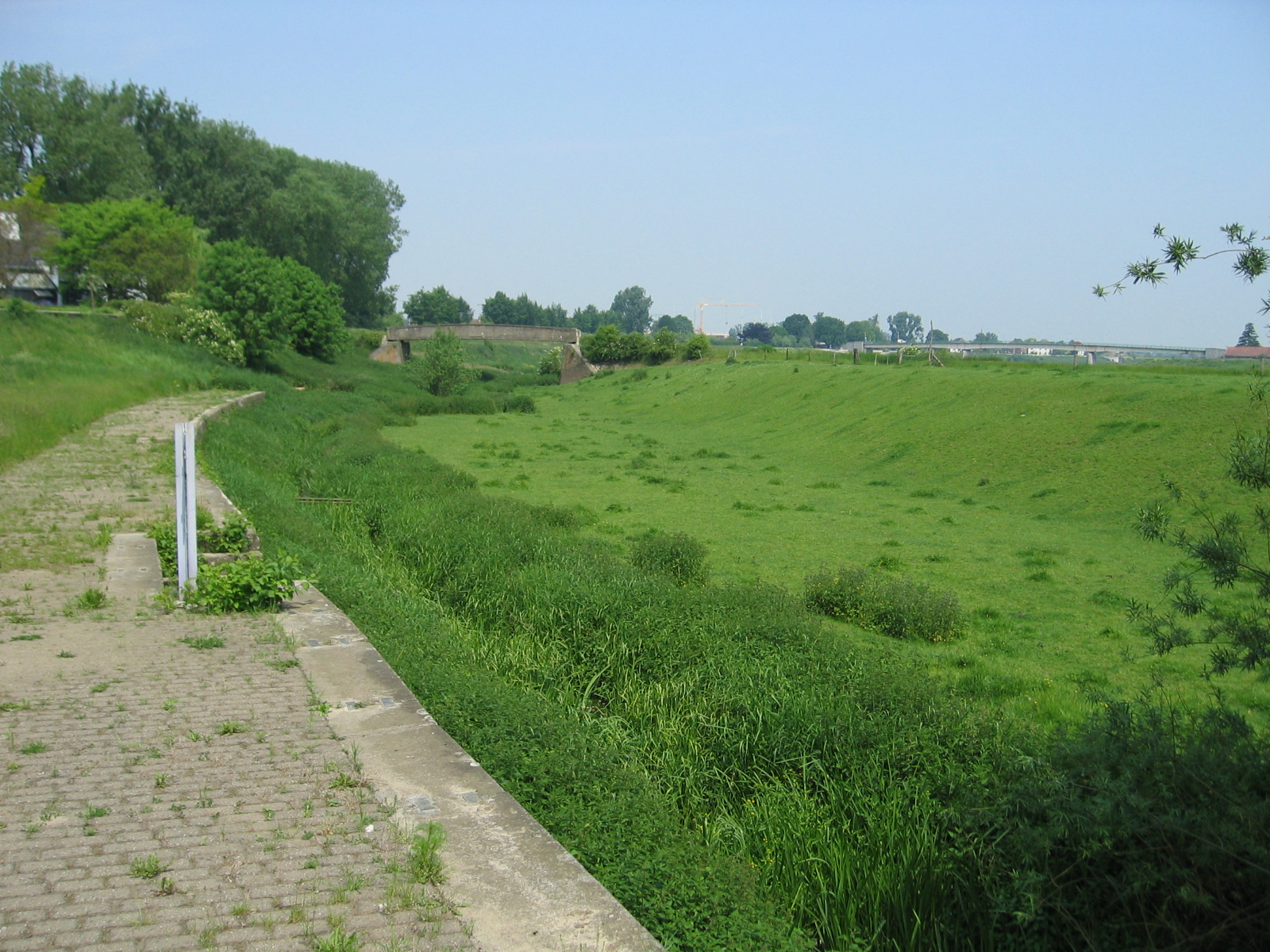 Quay of the former harbor of Maaseik. The currently dried up river was an ancient arm of the Meuse River.